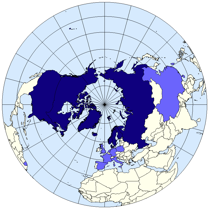 The Arctic Council members observers